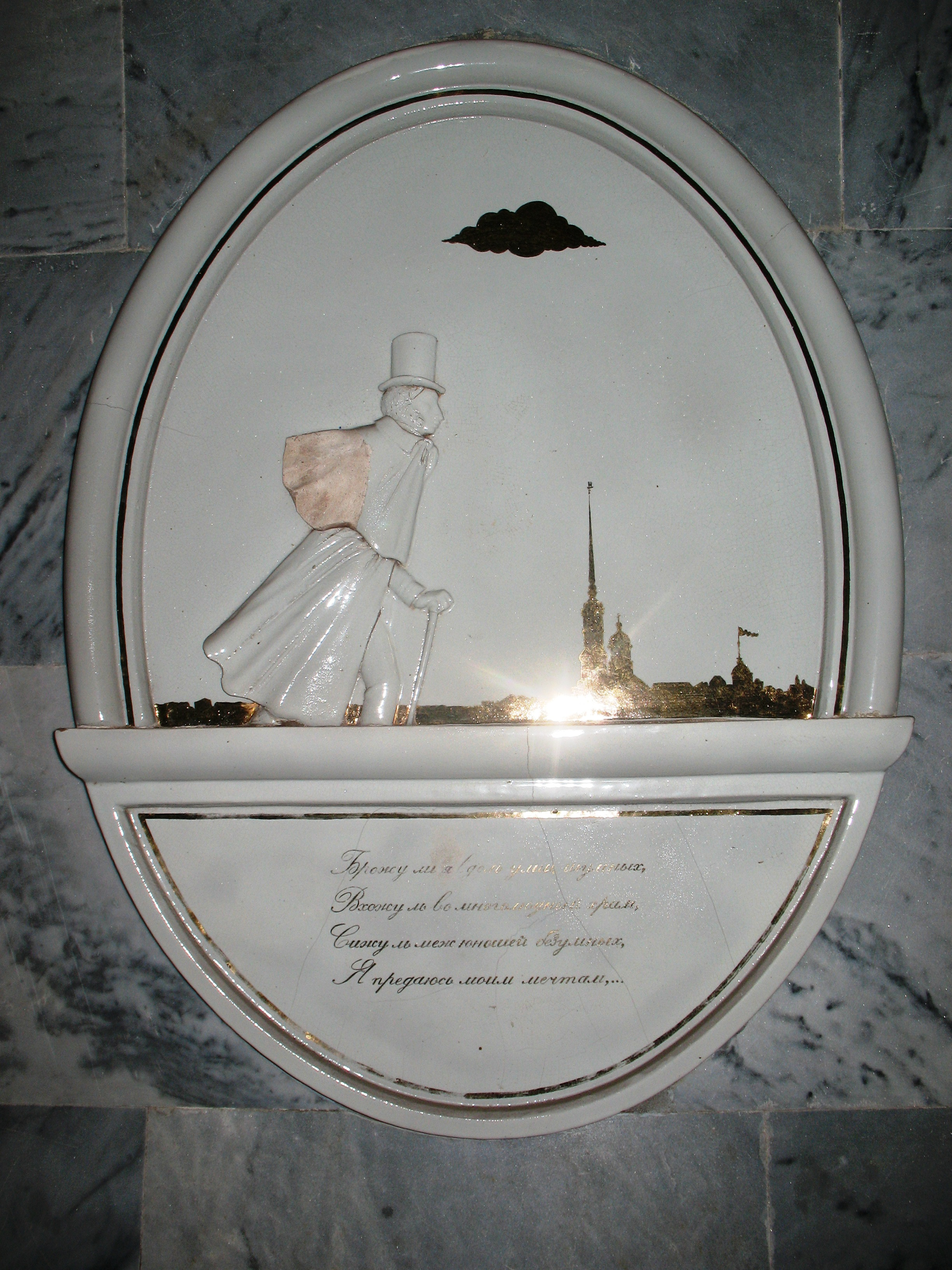 A.Pushkin and Peter & Paul Fortress and his poems in the metro station Pushkinskaya, Kharkov.